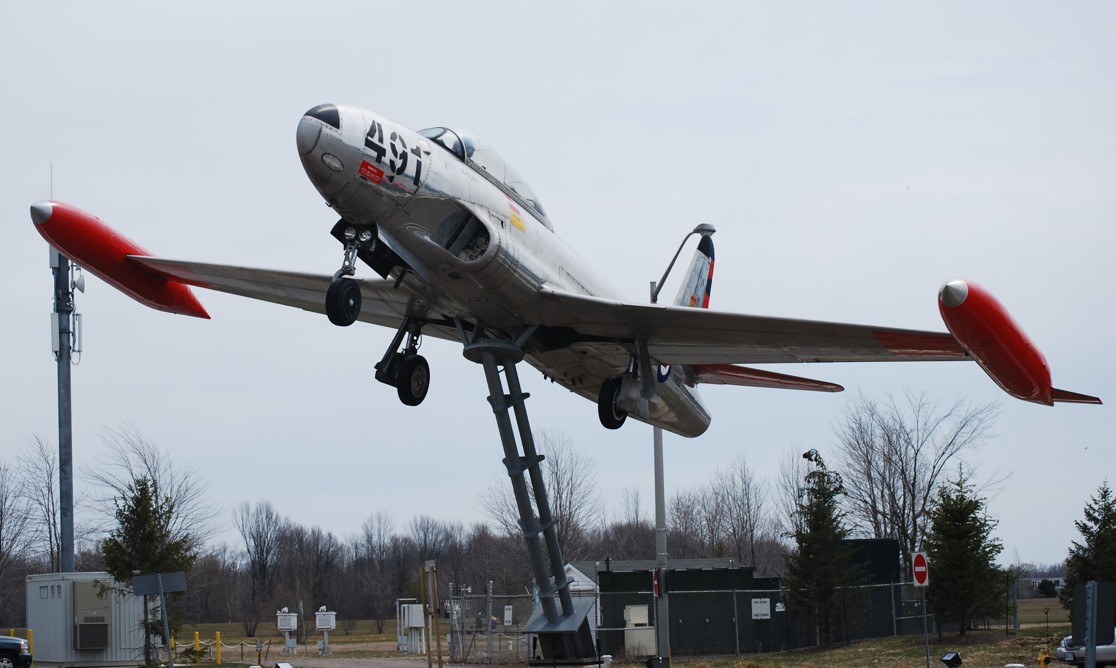 A Canadair T-33 aircraft mounted in front of the main terminal at London International Airport in London, Canada.